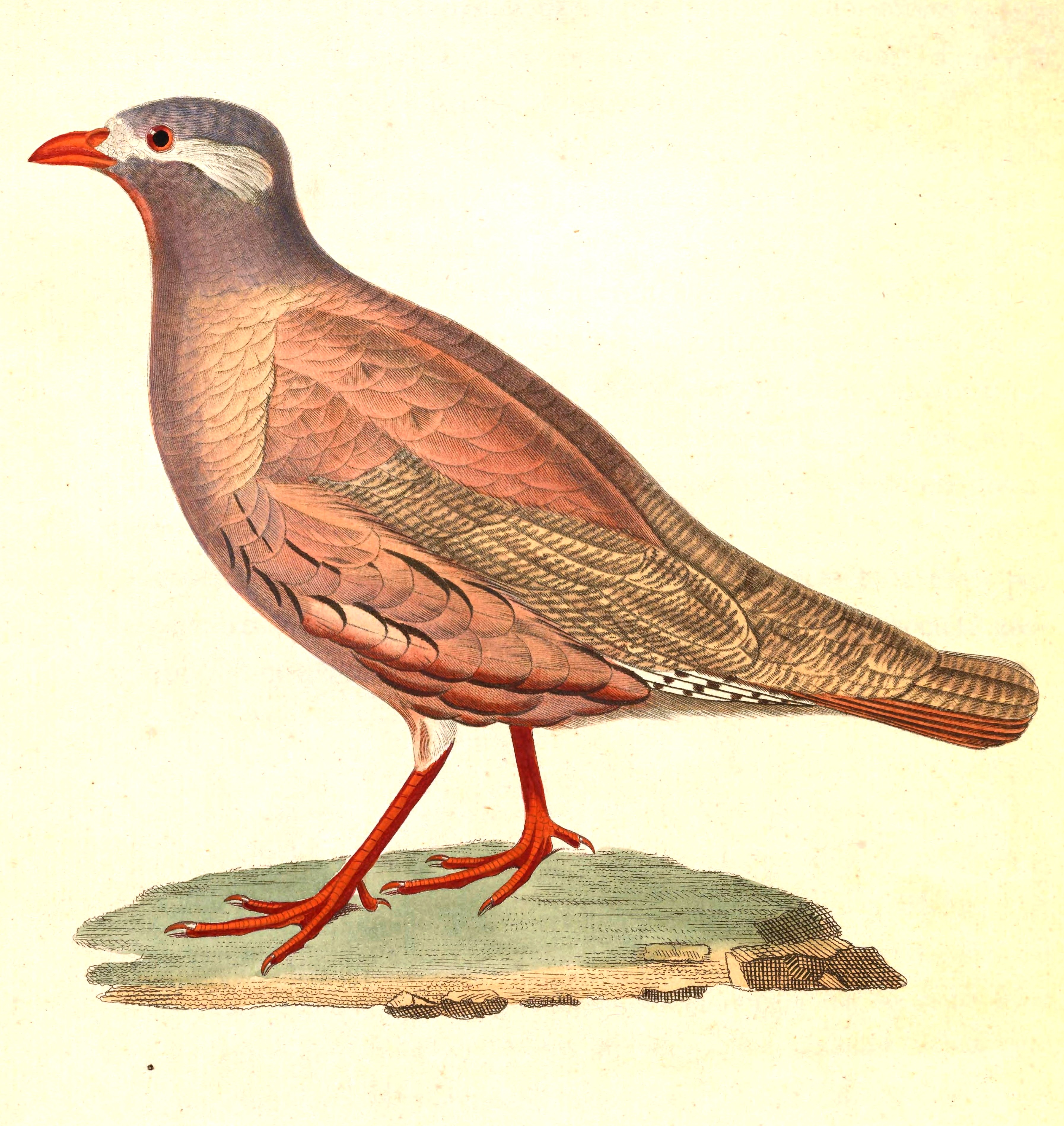 « Perdix heyi » = Ammoperdix heyi (Sand Partridge) - male